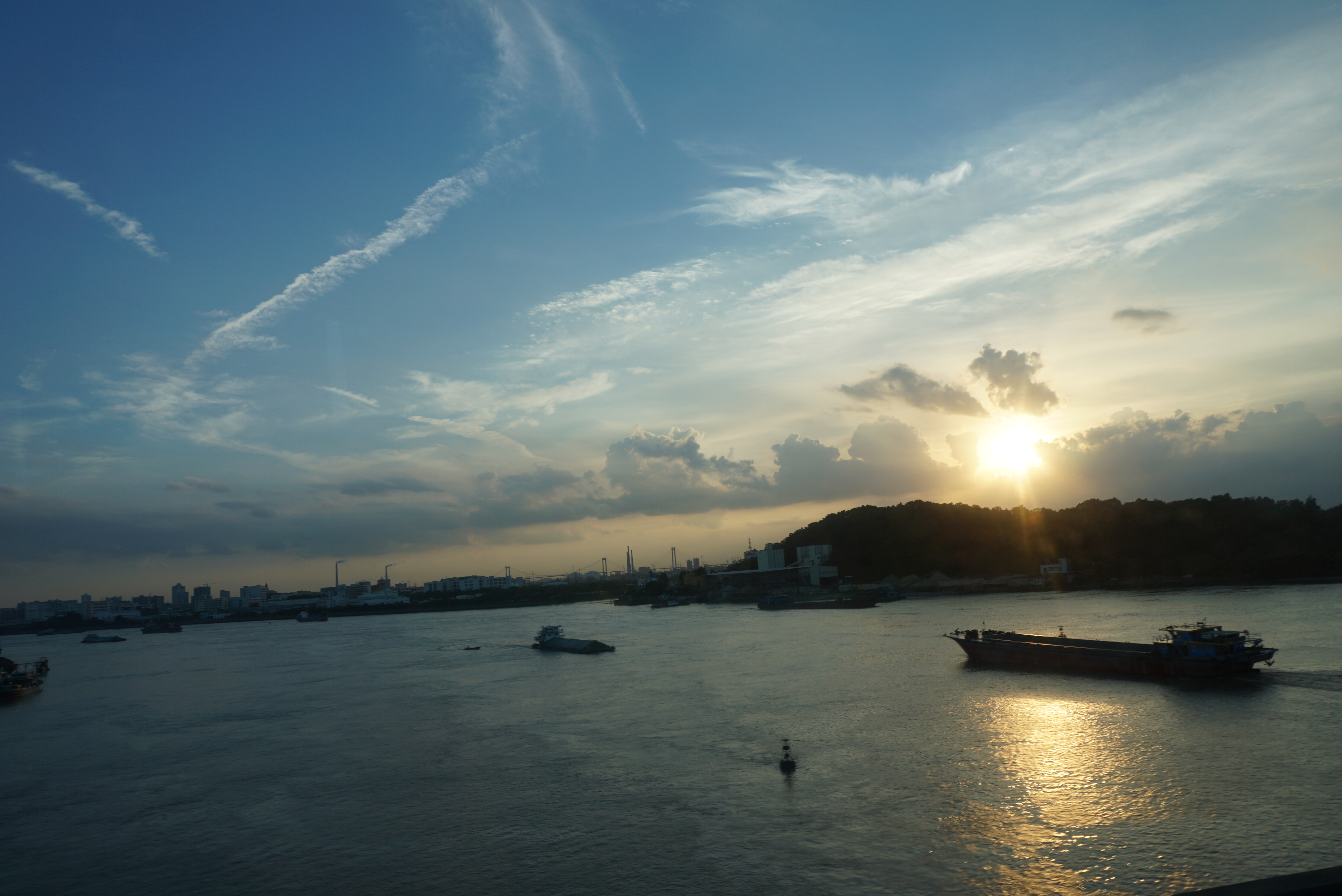 The north trunk of Dong River, near where it converges with the main stream of Pearl River, shot from the Dong River Viaduct of S3 Guangzhou-Shenzhen Riverside Expressway, crossing boundary between Dongguan and Guangzhou. Skyline of Guangzhou Economic and Technological Development Zone (Huangpu District) can be seen in the background, with the towers of Huangpu Bridge (G4/G1508 Expressway).